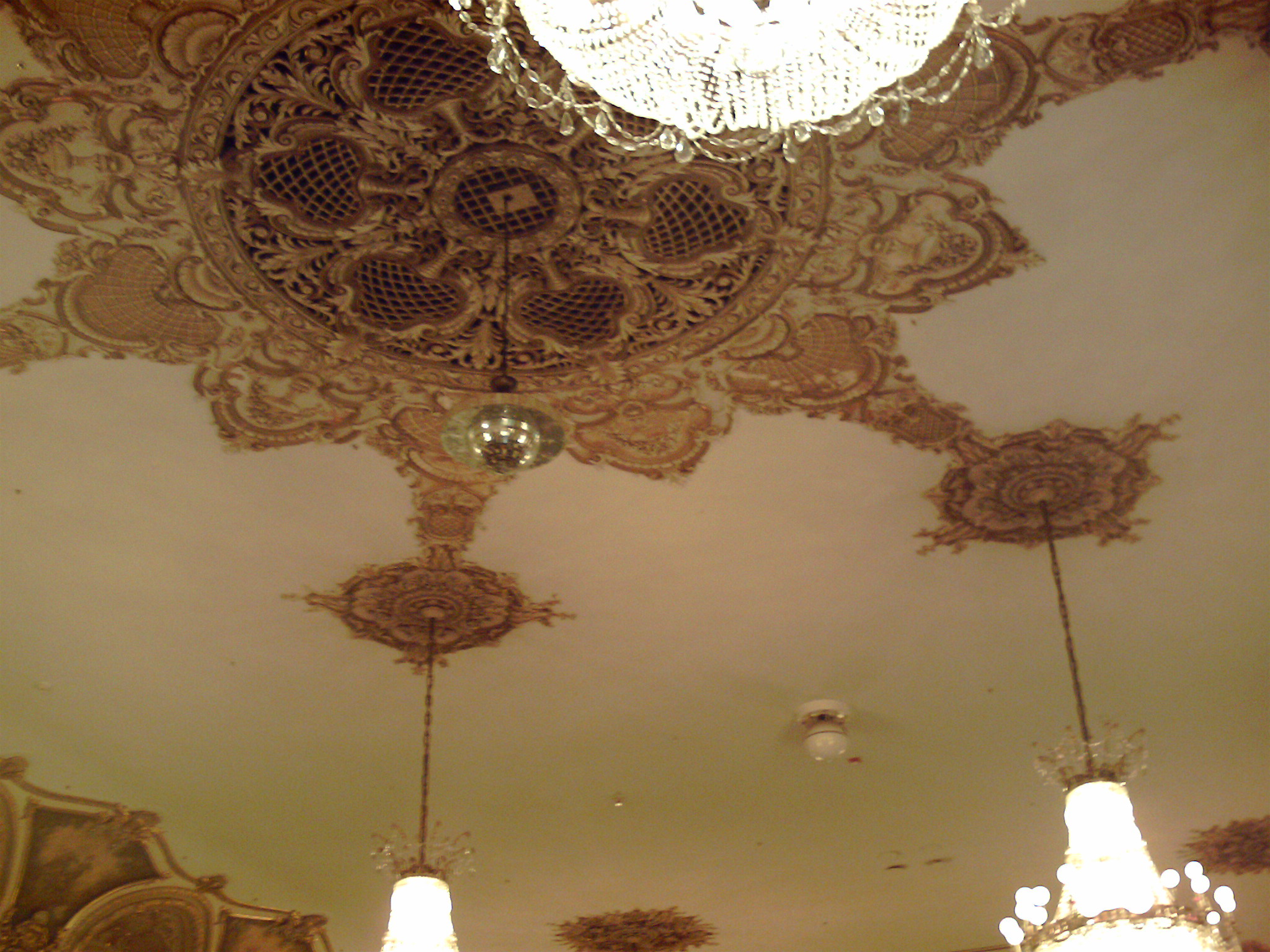 Detail of Ballroom in Chicago Hilton